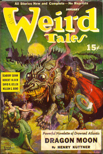 Cover of the pulp magazine Weird Tales (November 1941, vol. 35, no. 7) featuring Dragon Moonby Henry Kuttner. Cover art by Harold S. De lay.